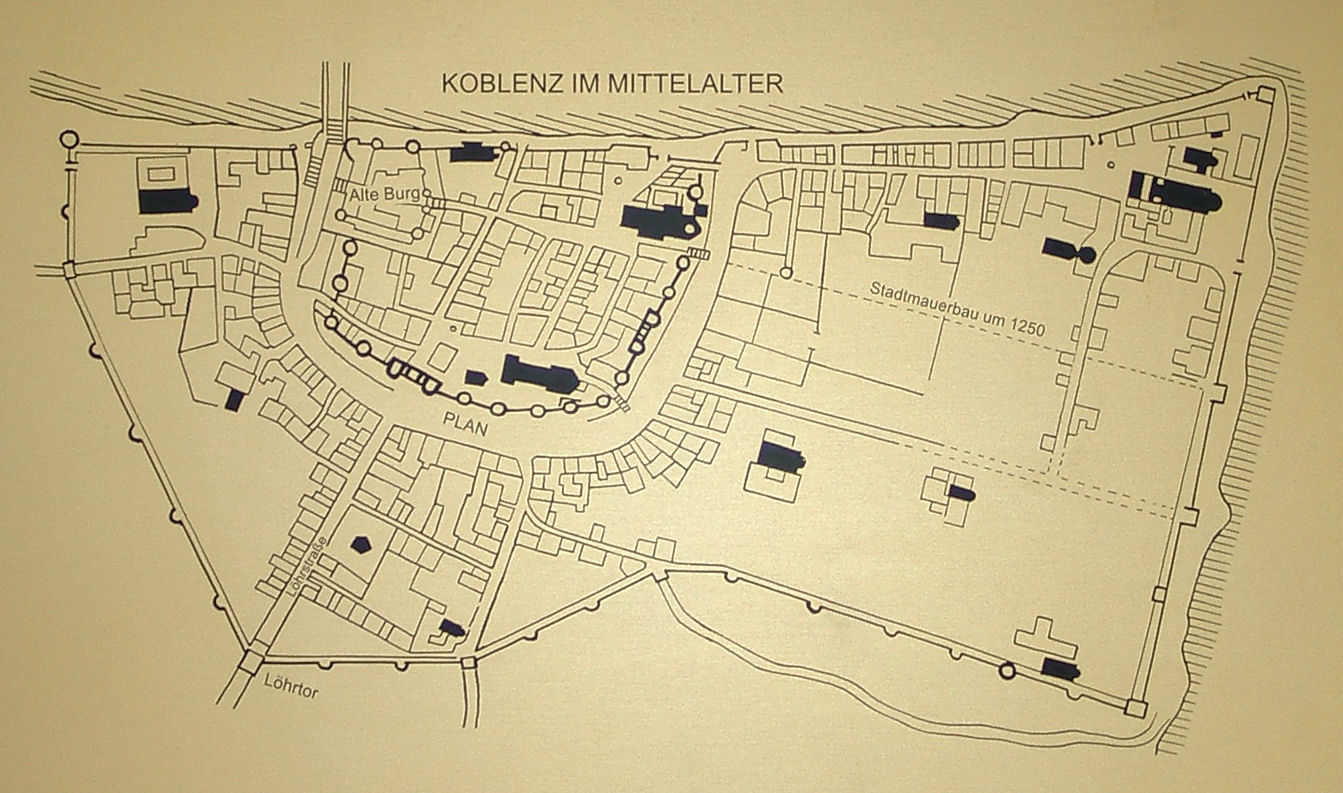 Map of the roman and middle age defensive wall of Koblenz